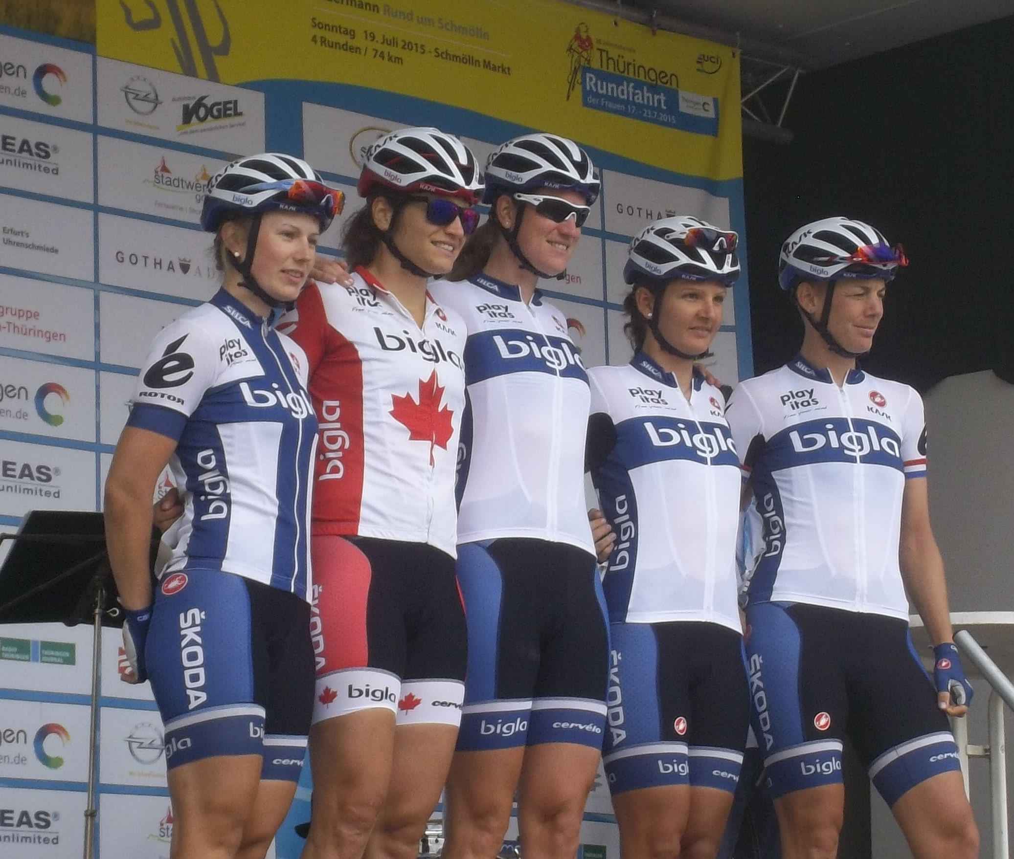 Team Bigla at the start of stage 4 of the Thüringen Rundfahrt 2015